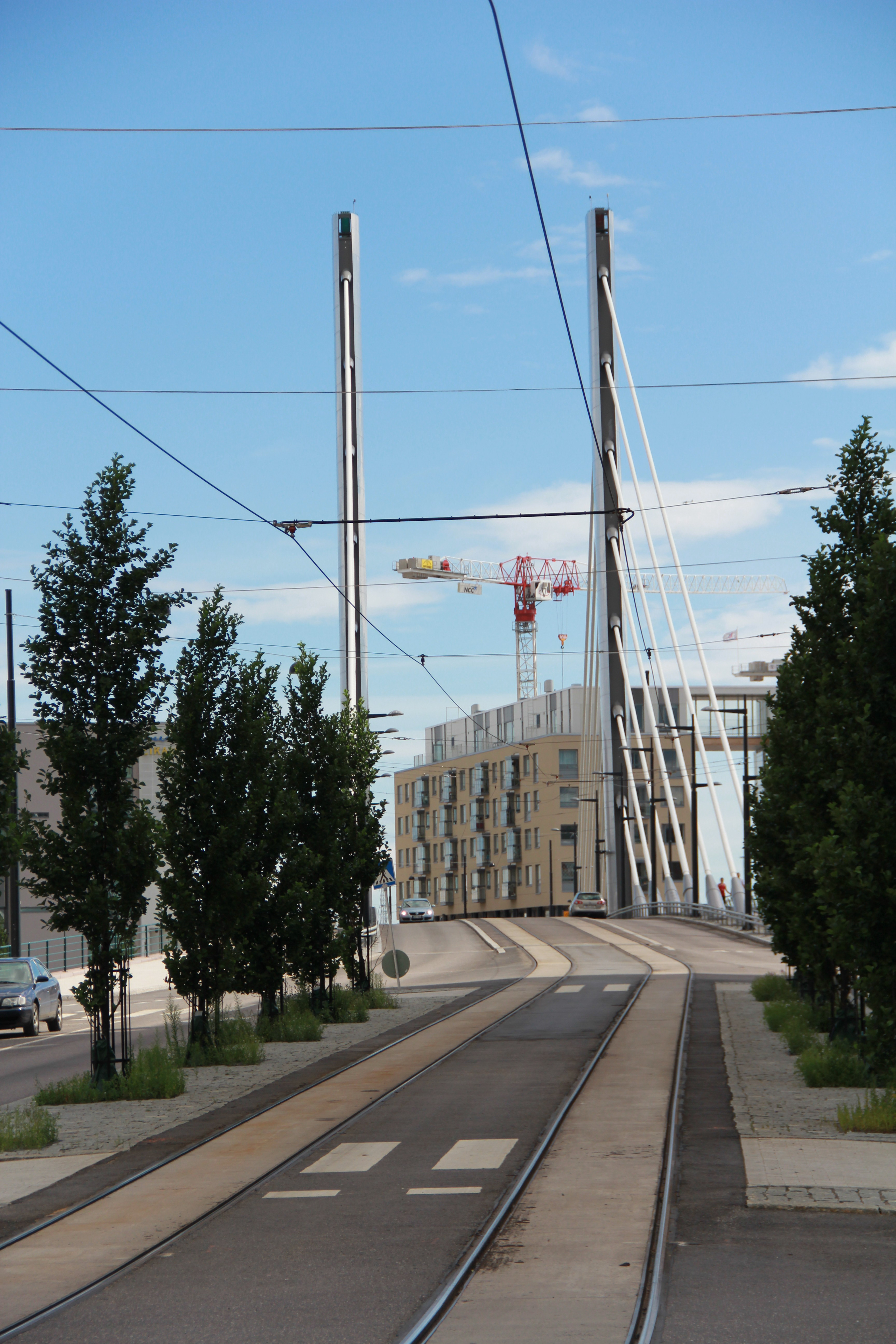 Crusell bridge, Helsinki, Finland. Completed 2012. Deck seen from Ruoholahti.